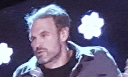 Pierre-Luc Pomerleau photographed in St. Eustache , Québec, Canada at the comedy festival/classic car show Ce soir on char 2020.